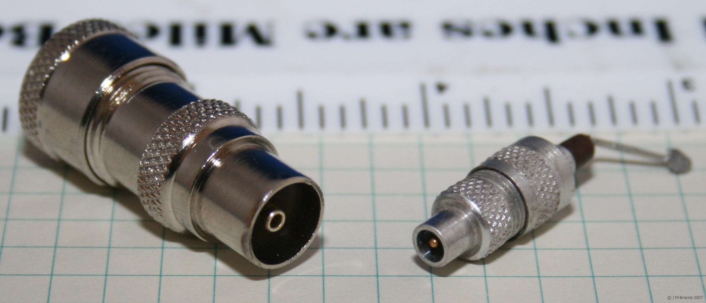 Miniature Belling Lee plug alongside a standard Belling Lee plug.